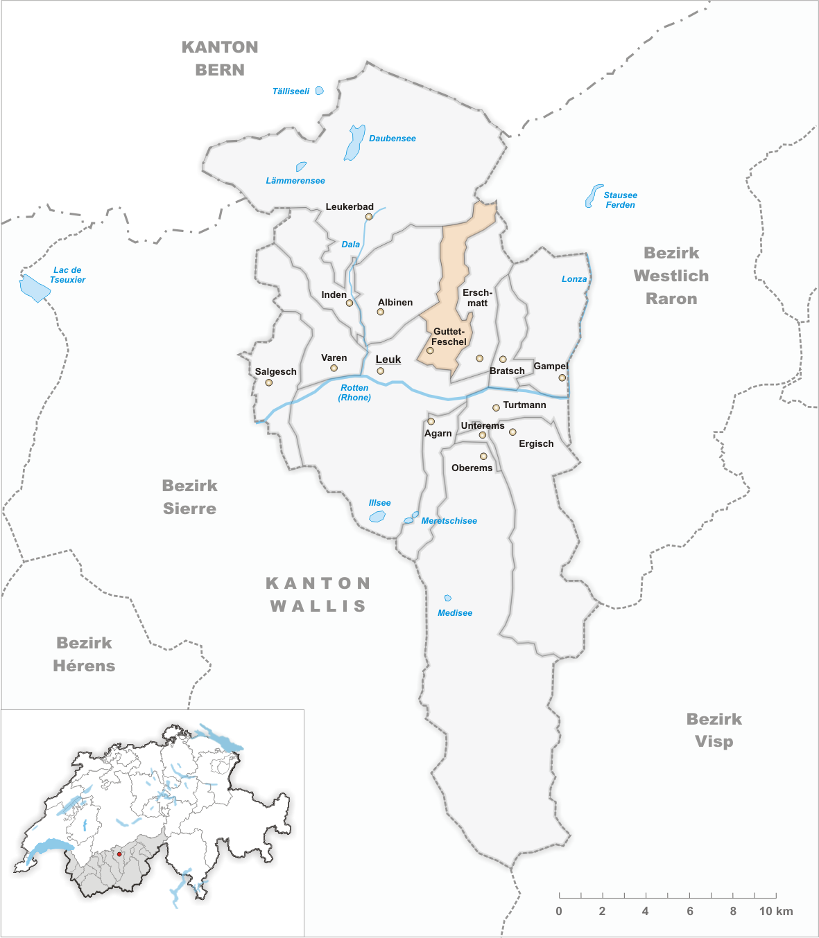 Municipality Guttet-Feschel